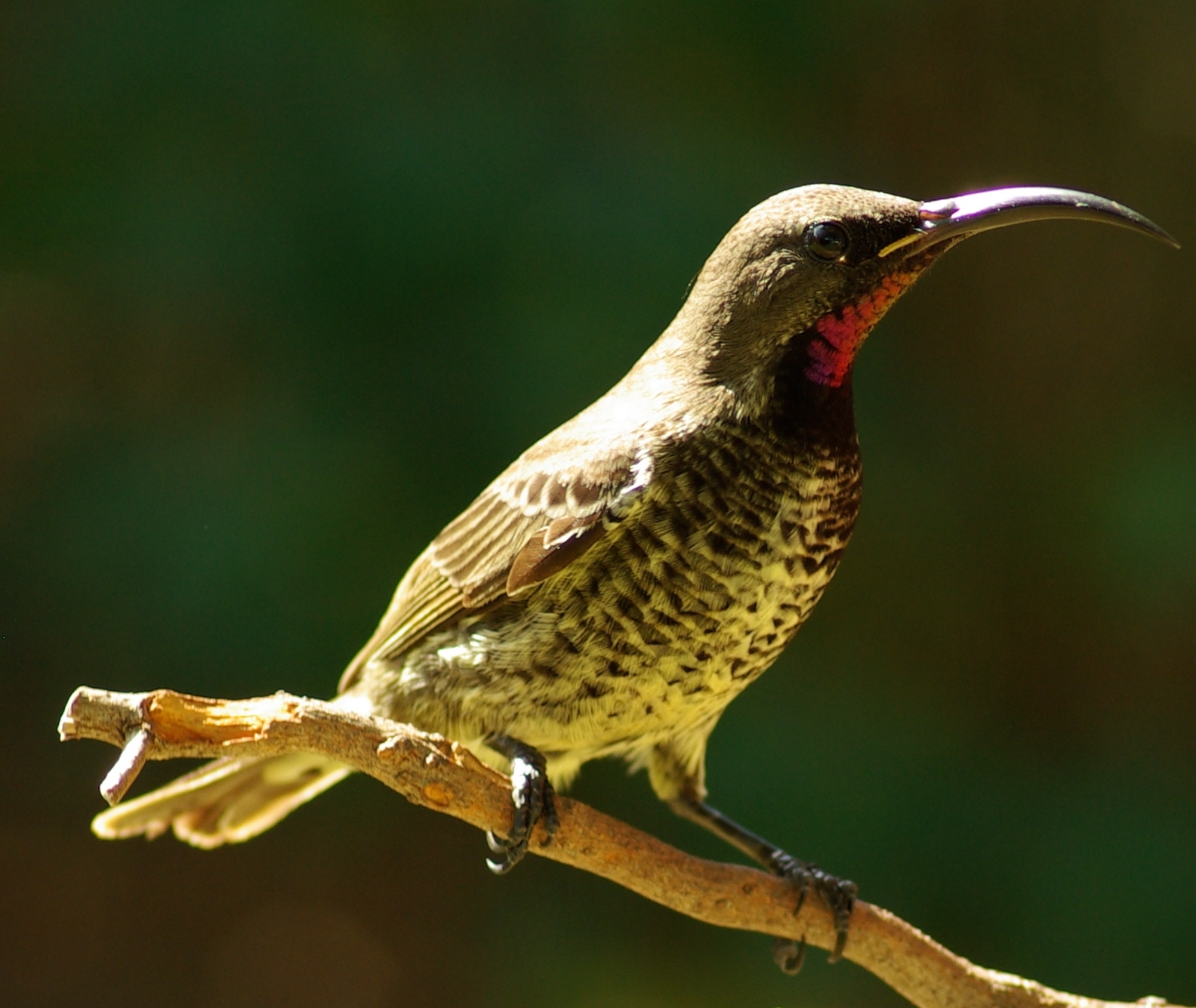 Immature male (note pale, fleshy gape and coloured throat) Amethyst sunbird of the nominate race (note heavy bill, etc.) at Greyton, Western Cape